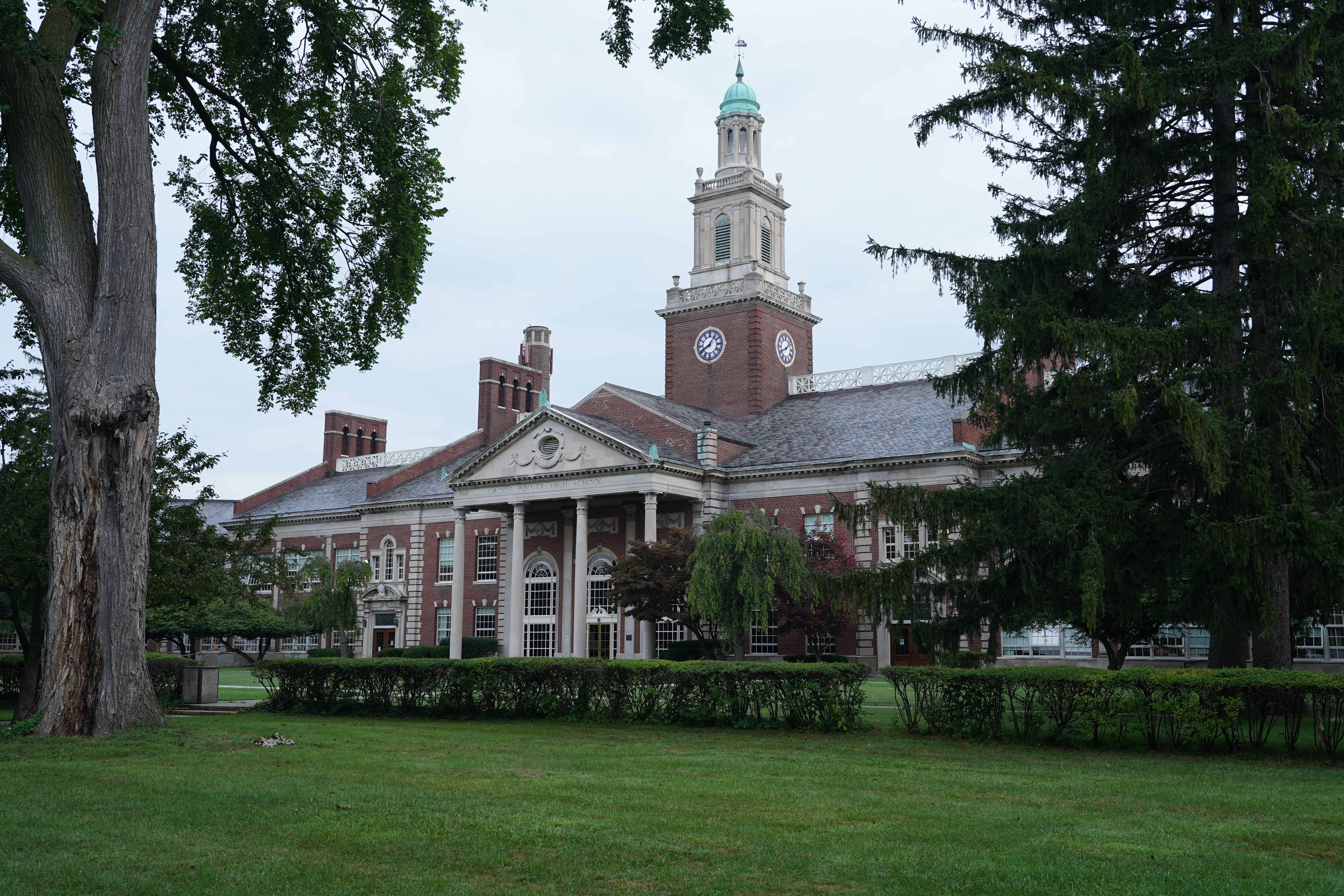 Grosse Pointe South High School minutes after the start of classes on the last first day of school for the class of 2020.